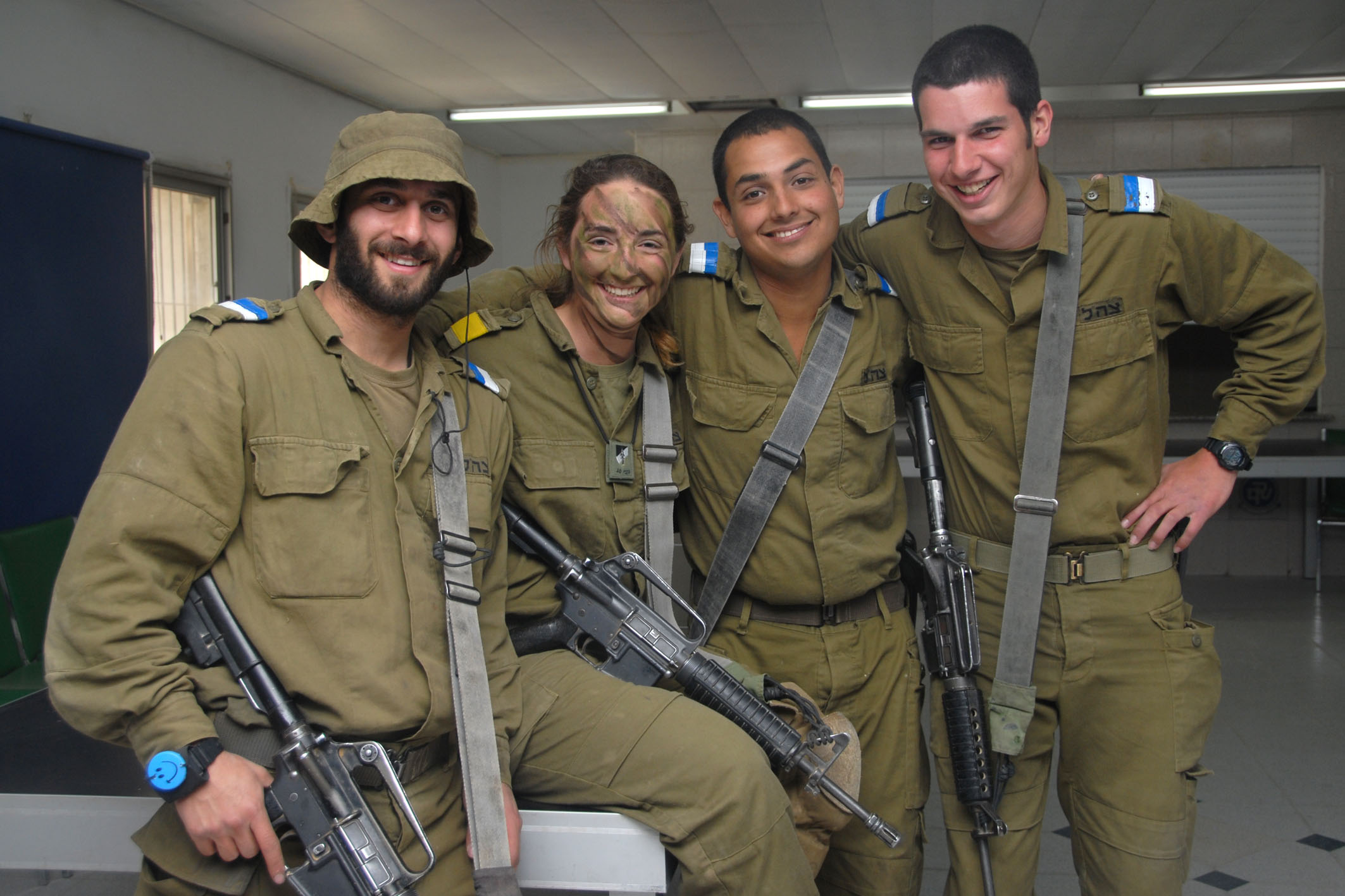 The Israel Defense Forces Facebook • blog • Twitter